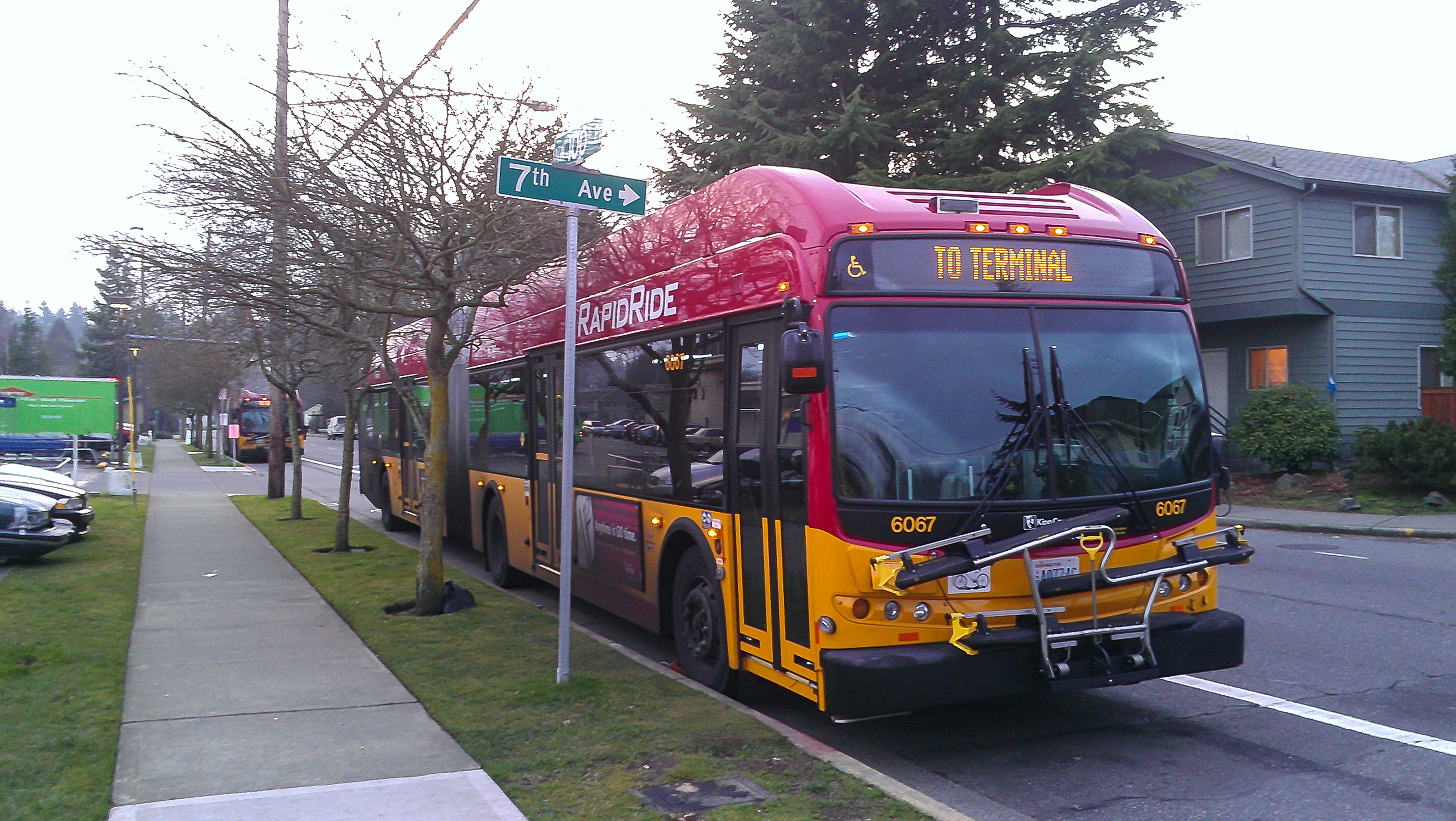 Behind the Holman Rd QFC